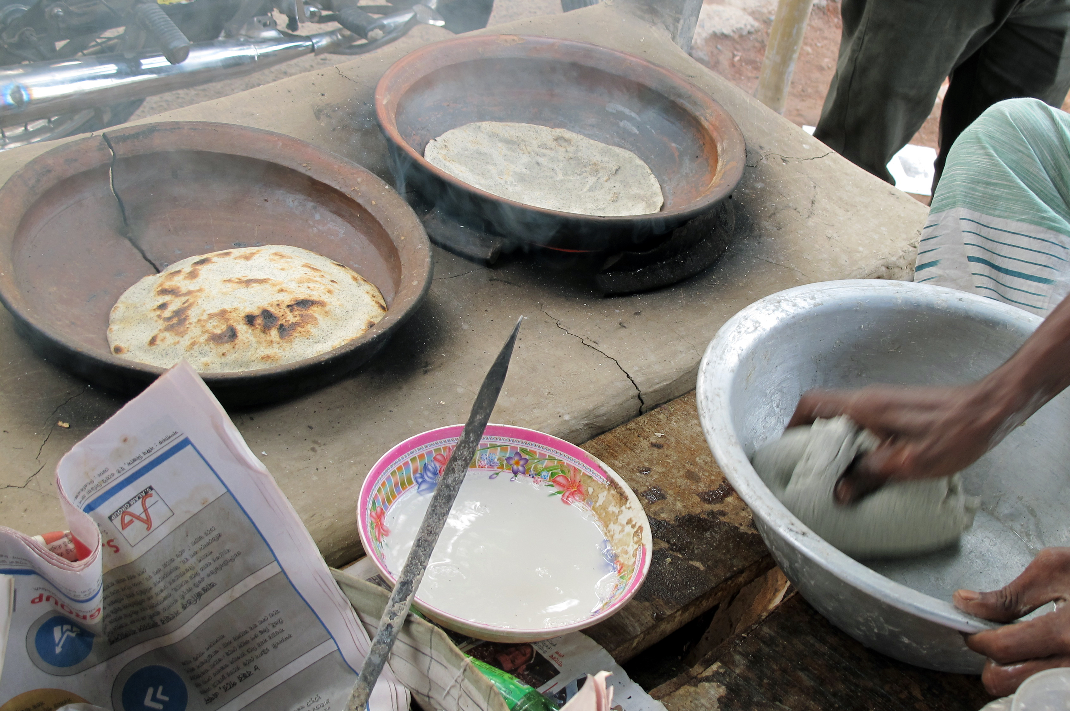 Kalai Ruti making